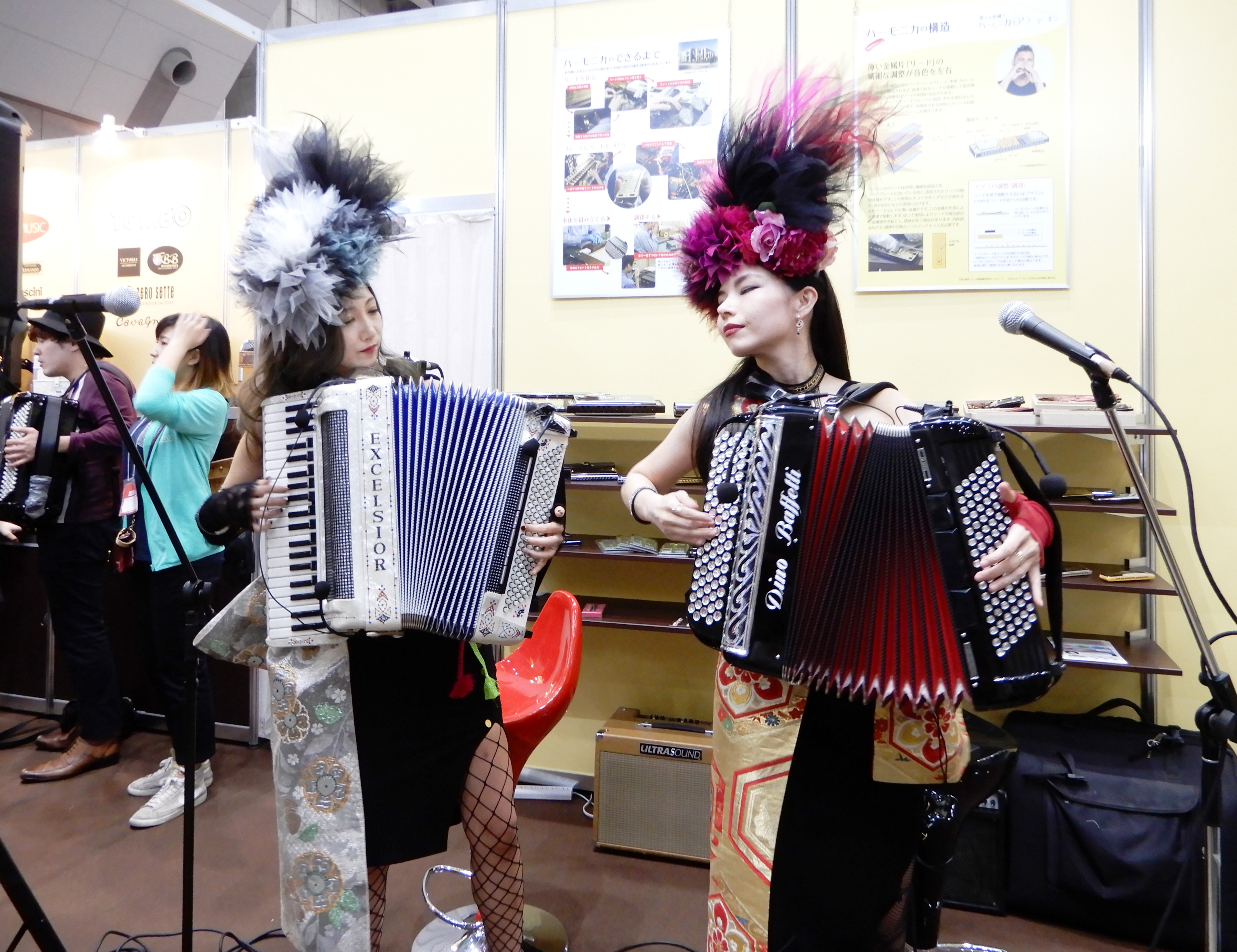 demonstration-performance by MeguRee, the accordion duo of piano accordion player Ms.Ree & chromatic button accordion player Ms.Meme, presented by TANIGUCHI GAKKI (TANIGUCHI's Musical Instruments Shop). This photo was taken at A-04 exhibition booth of Musical Instruments Fair Japan 2018 i.e. Gakki Fair 2018, held in Tokyo Big Sight from 19th to 21nd October.